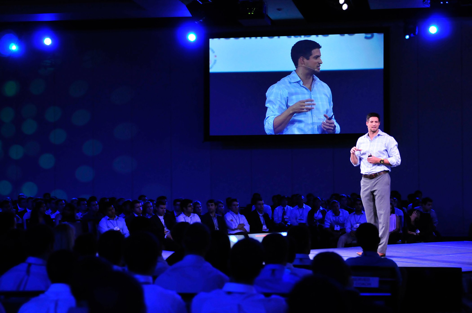 Steve Mesler on stage in Dallas, TX.